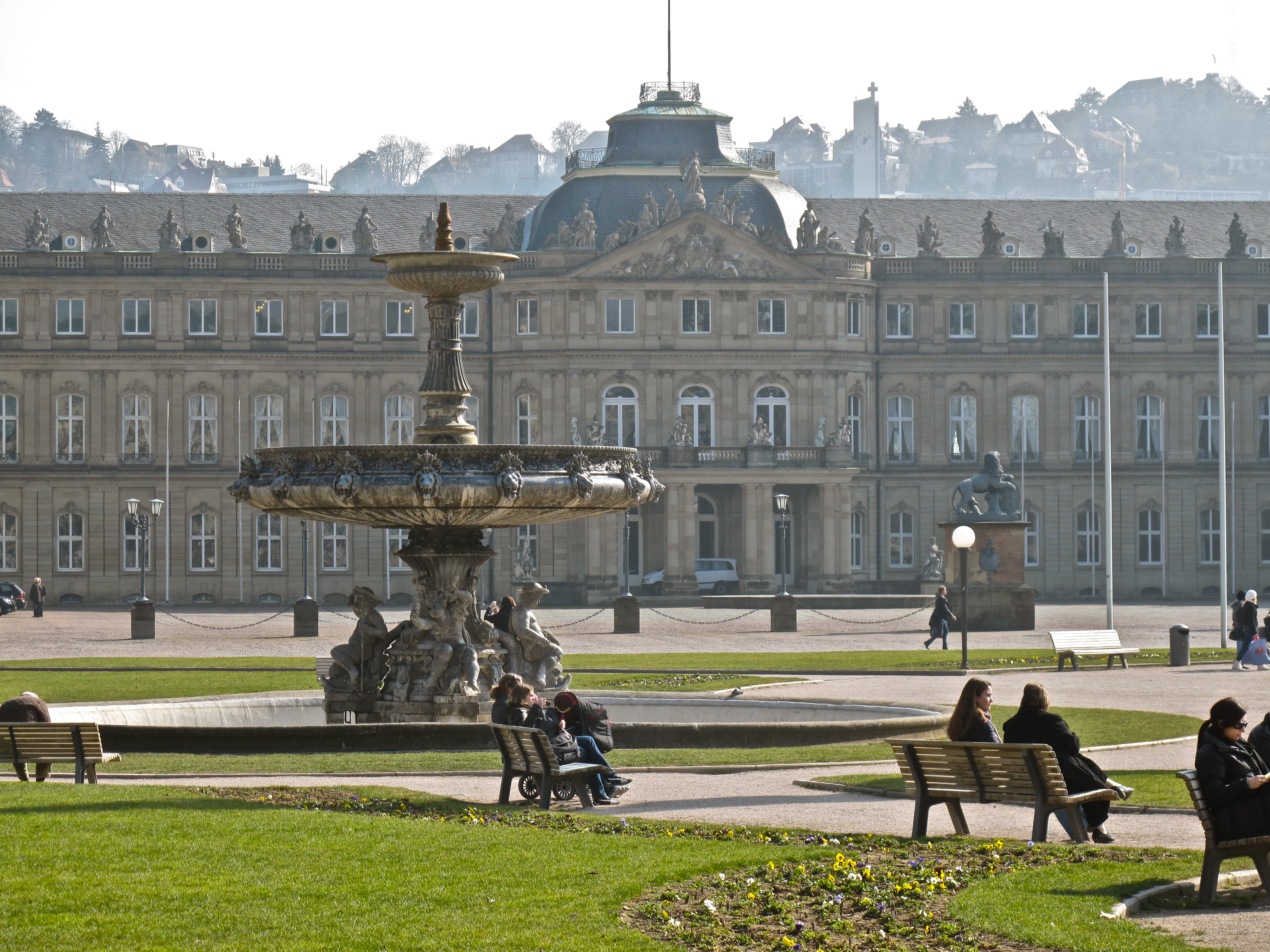 The Neue Schloss at the Schlossplatz in the city centre of Stuttgart with a fountain in the foreground.